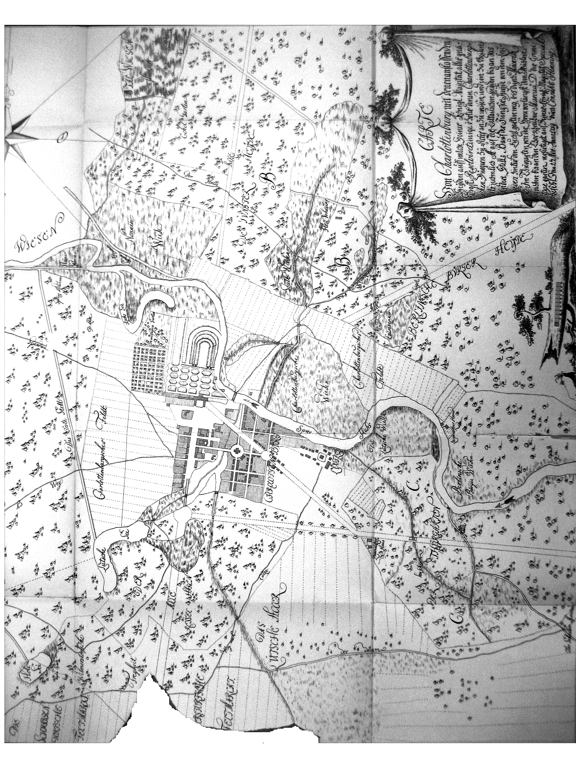 Die in Commons liegende Karte von Charlottenburg um 1740 wurde durch Vierteldrehung als genordet variiert.